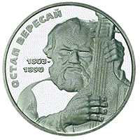 Coin of Ukraine